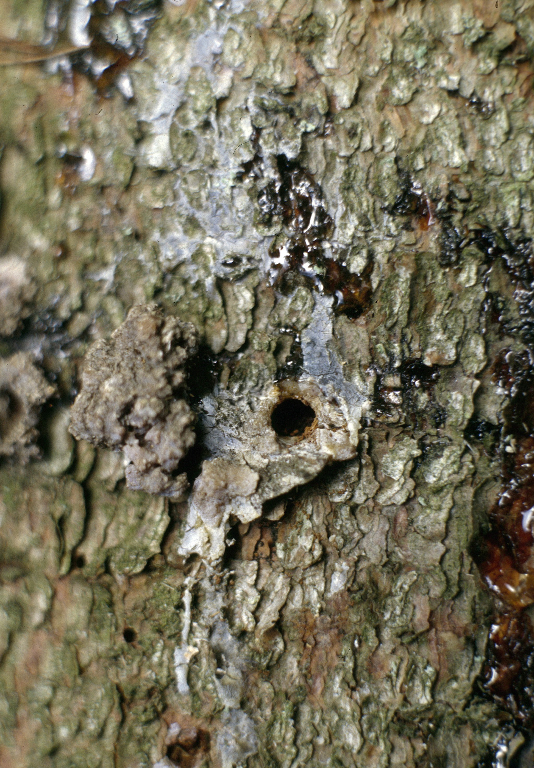 Damage of Dendroctonus micans